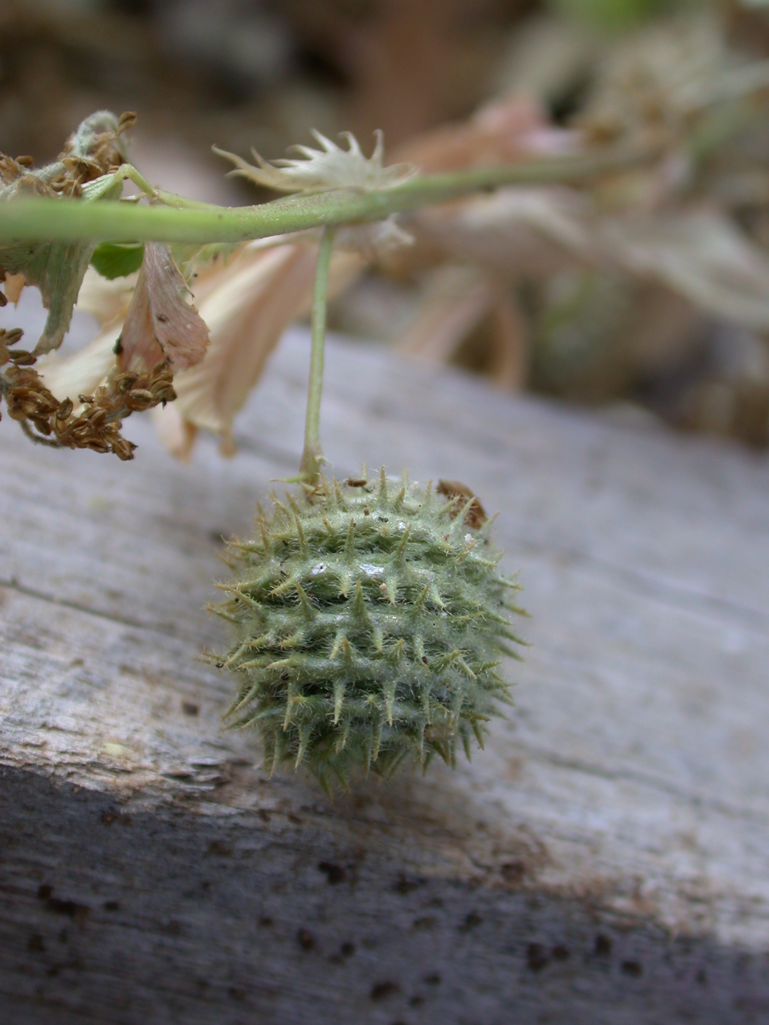 Medicago ciliaris (L.) All. (אספסת ריסנית, אספסת משוזרת), Mount Carmel, Israel, May 2, 2008. Other names: Medicago intertexta (L.) Mill. var. ciliaris (L.) Heyn.